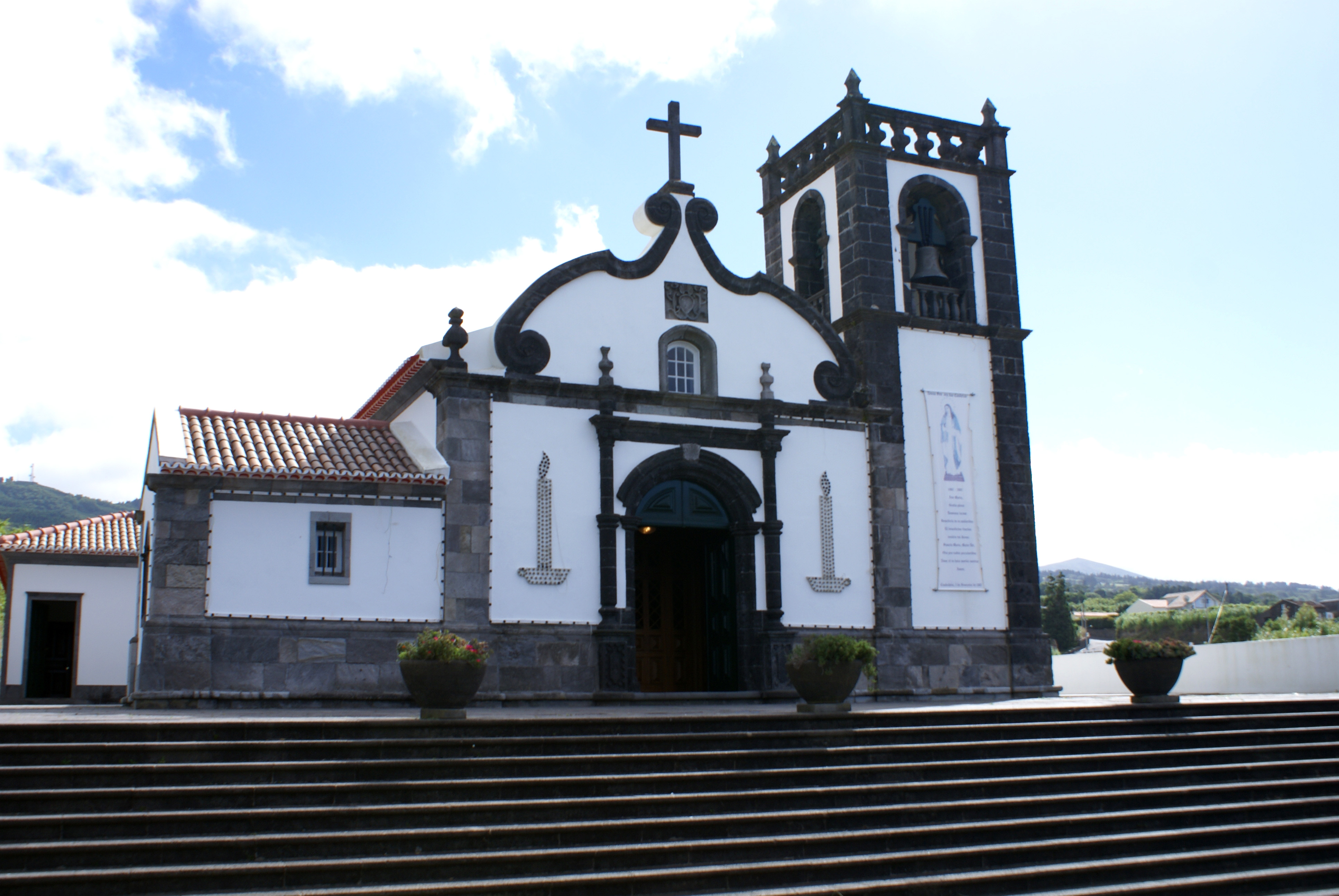 The front façade of the Church of Nossa Senhora das Candeias, Candelária, Ponta Delgada, São Miguel (Azores), Portugal